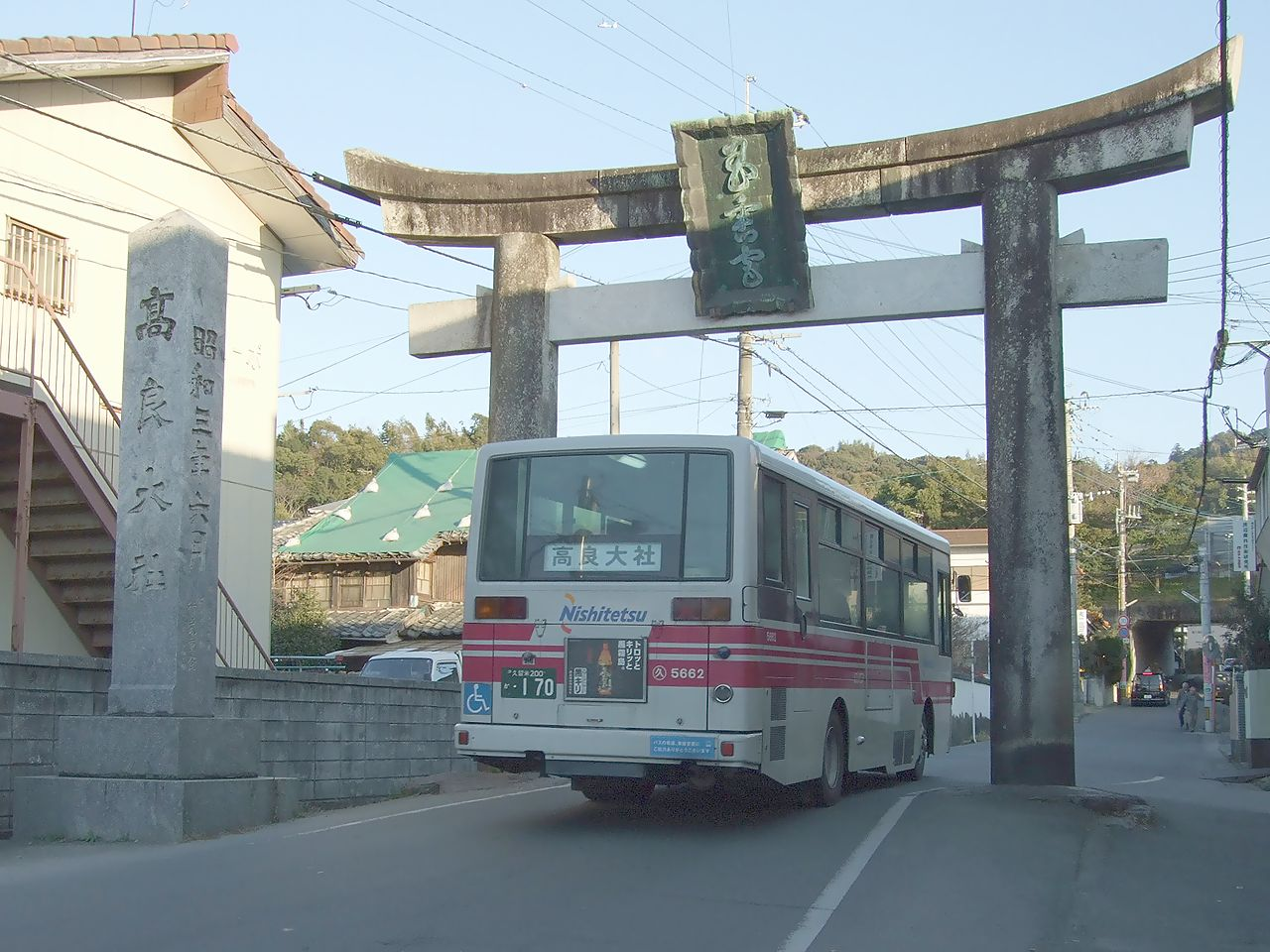 Nissan Diesel Space Runner RM with Nishinippon Shatai Kogyo body for Nishitetsu Bus Kurume Headquarters transit bus (license plate: Kurume 200 KA 170, in-company code: 5662) passes under the torii at Kora Taisha shrine in Miimachi, Kurume City, Fukuoka, Japan